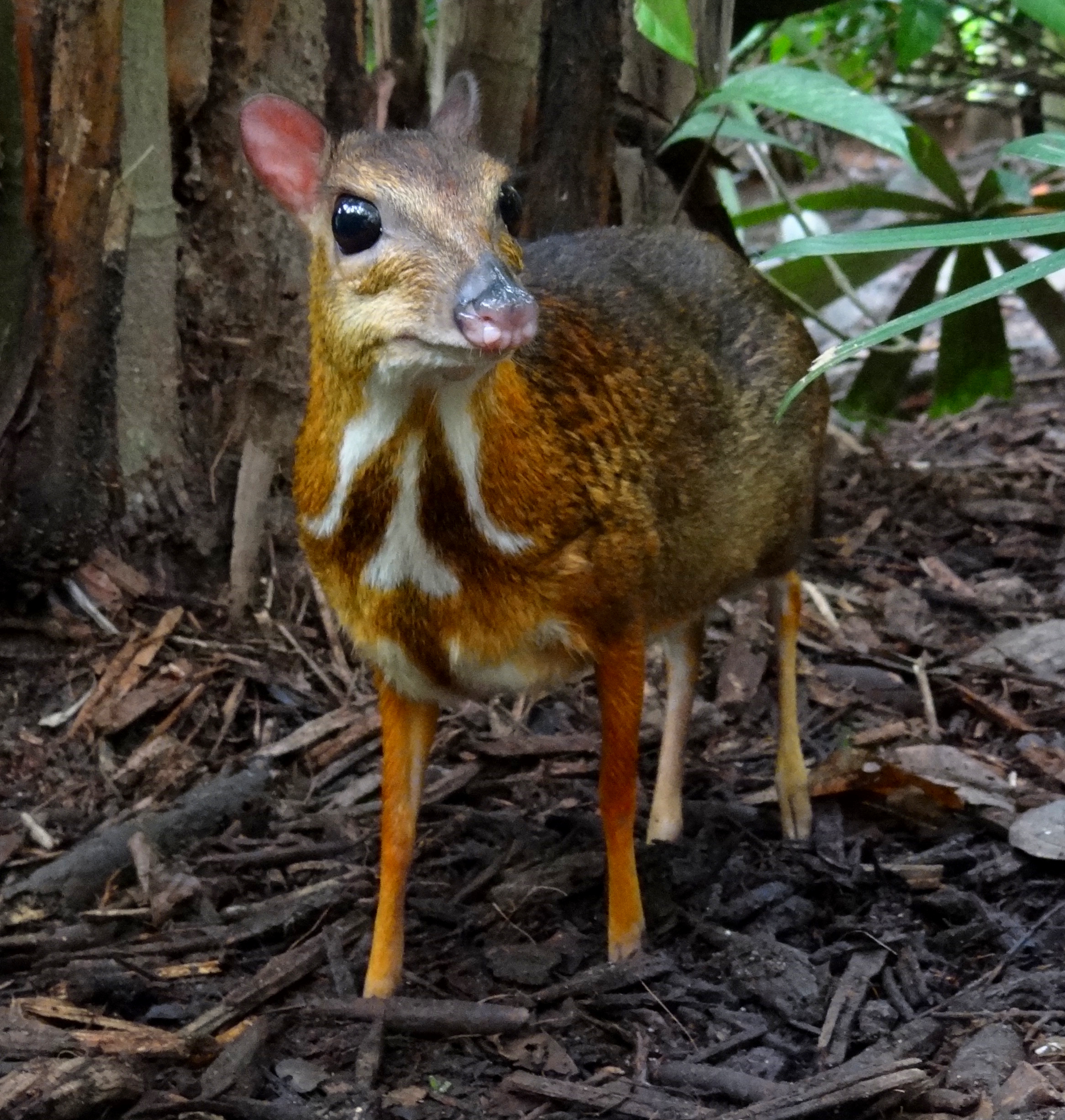 A chevrotain or Lesser mouse-deer (Tragulus kanchil) roaming almost freely about in the Singapore Zoo.